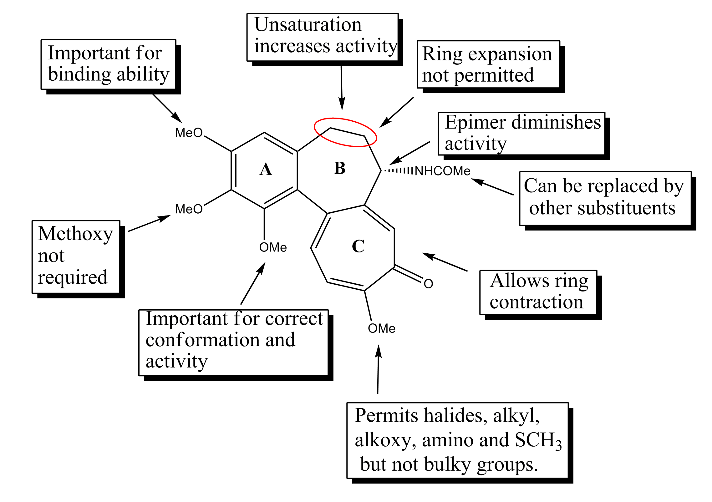 Importance of the functional groups and the rings are shown